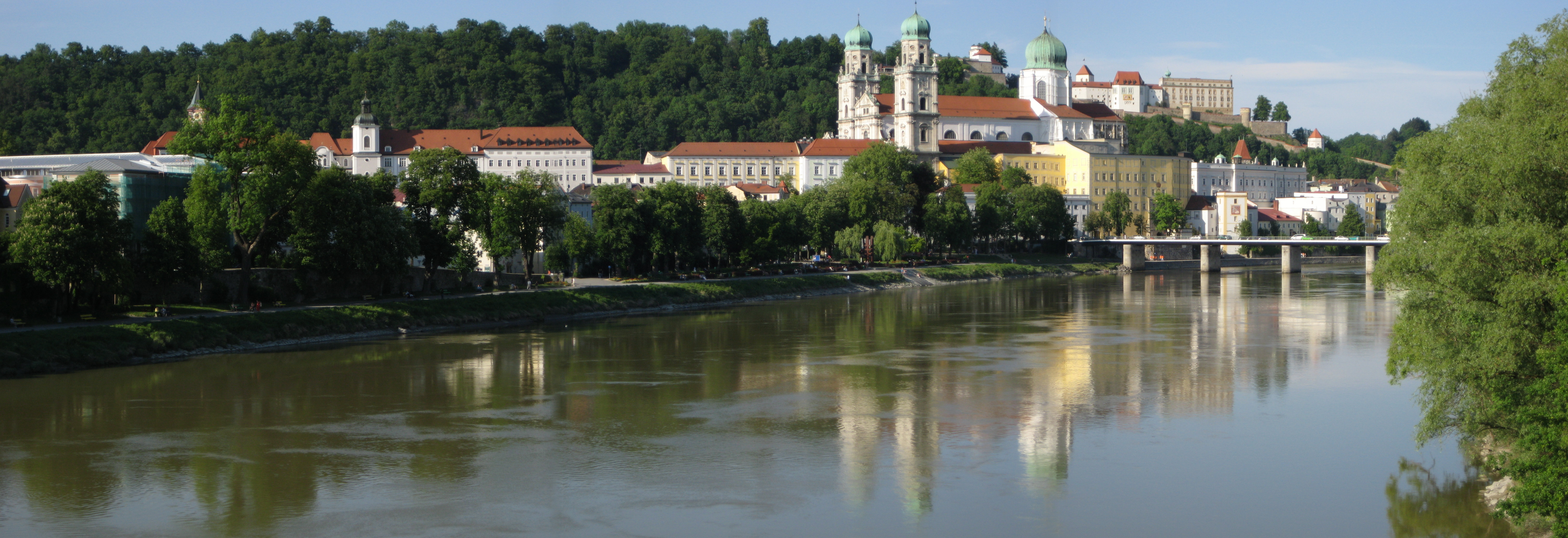 Passau, Inn River, Cathedral and Oberhaus Panorama Stitch